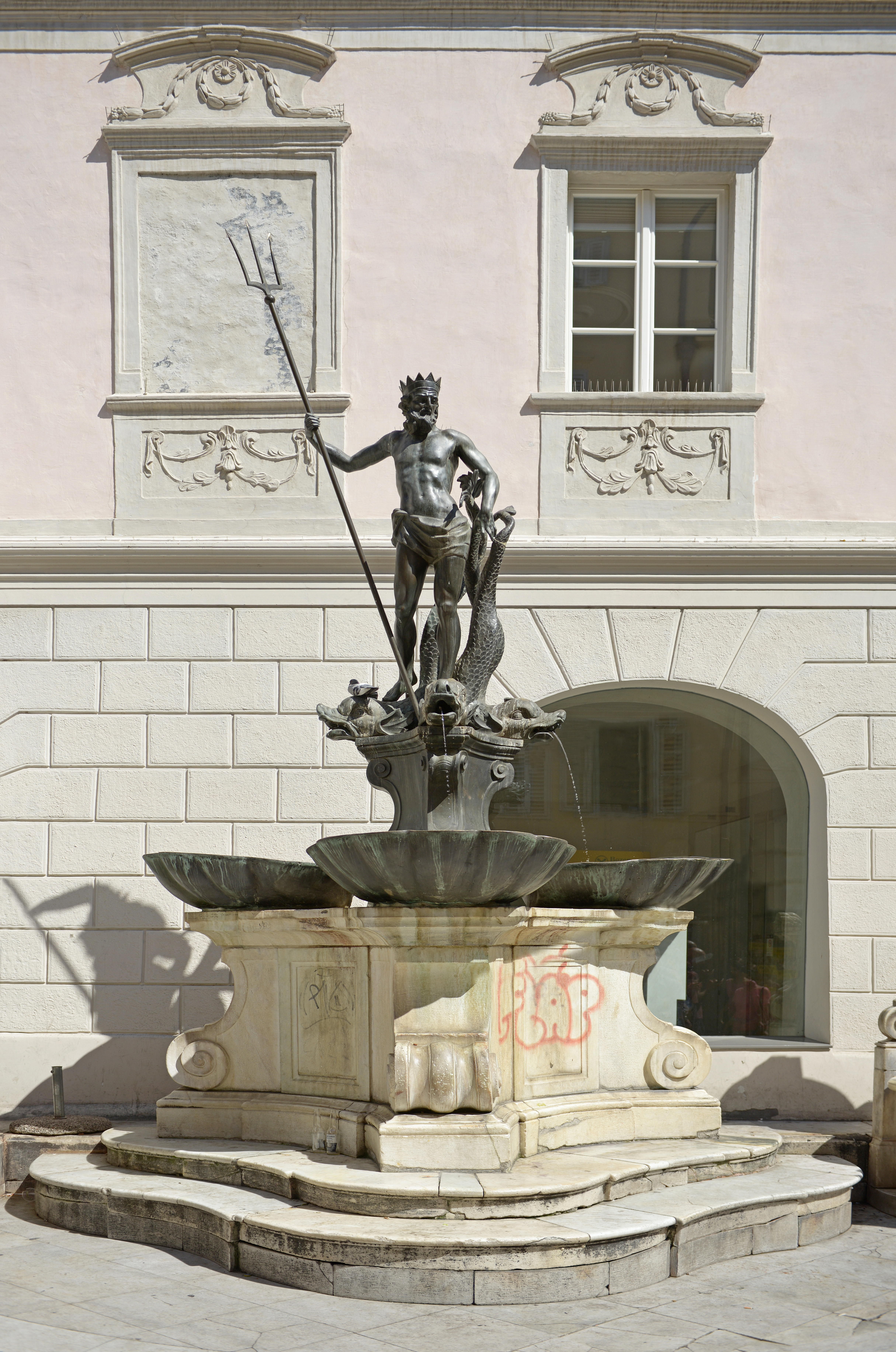 Neptun fountain in Bozen South Tyrol